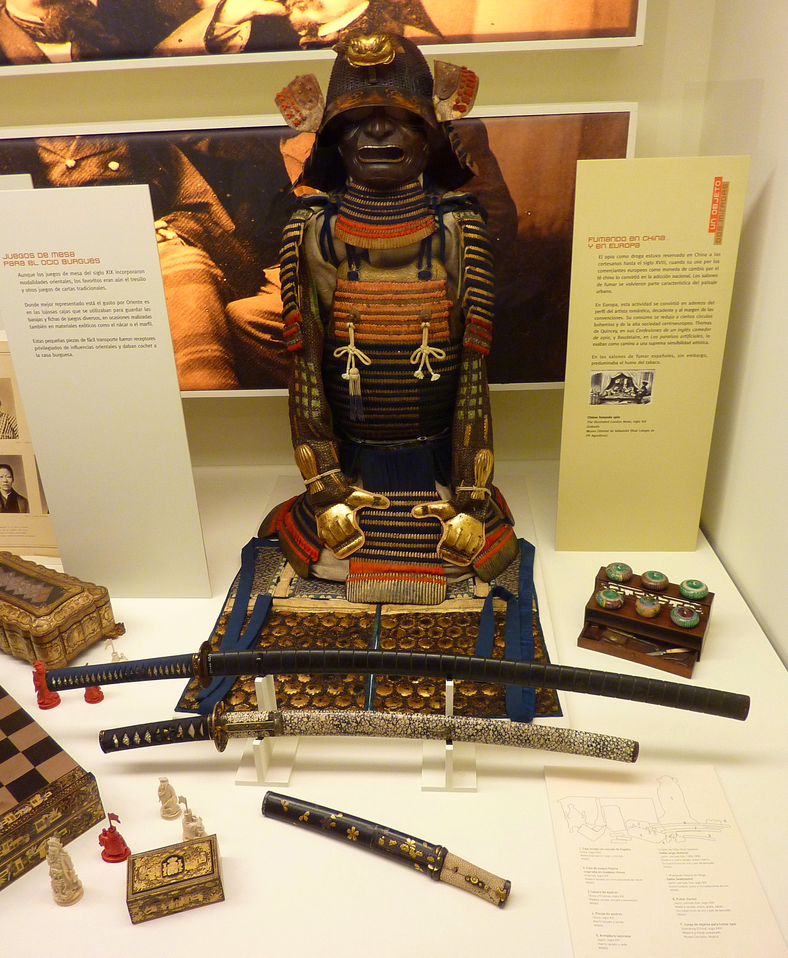 Samurai Japanese armour